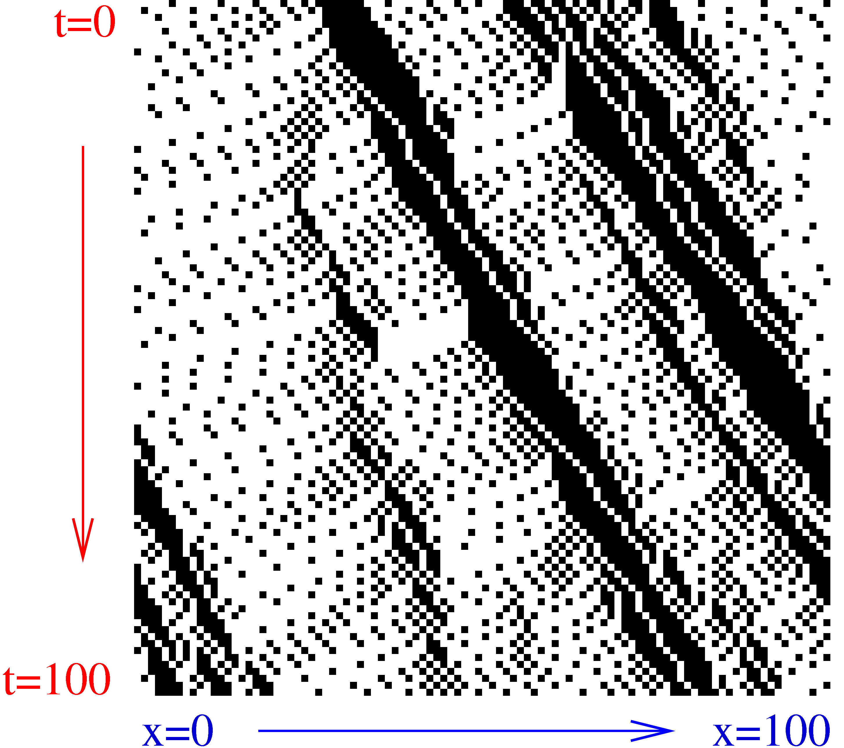 Nagel-Schreckenberg model simulation - space-time plot. Parameters are a circular road of 100 cells for 100 time units. Car density of 0.35 cars per cell, p = 0.3